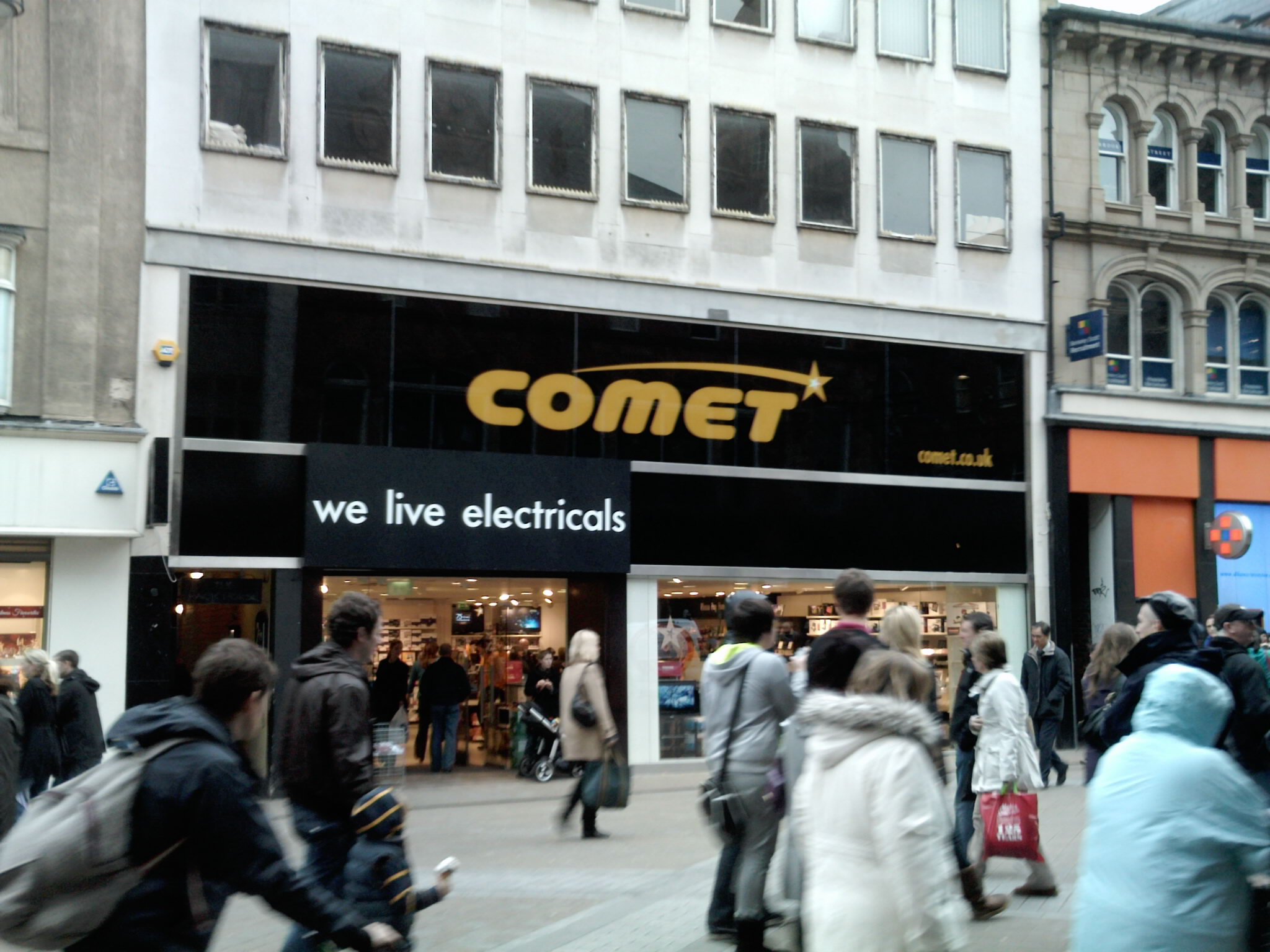 Comet electrical retailer on Briggate, Leeds. Taken on a Saturday in November 2009.